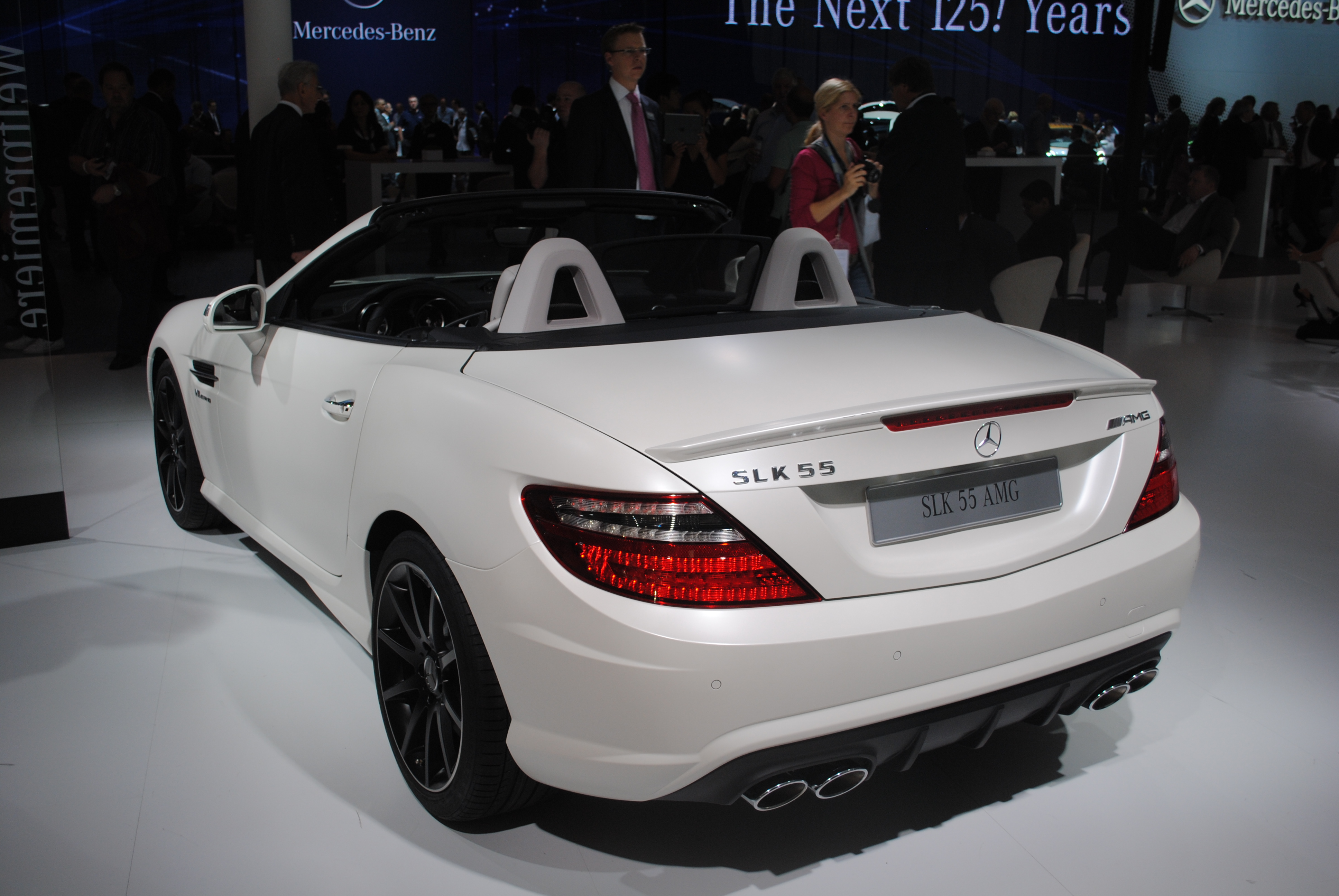 More photos and info